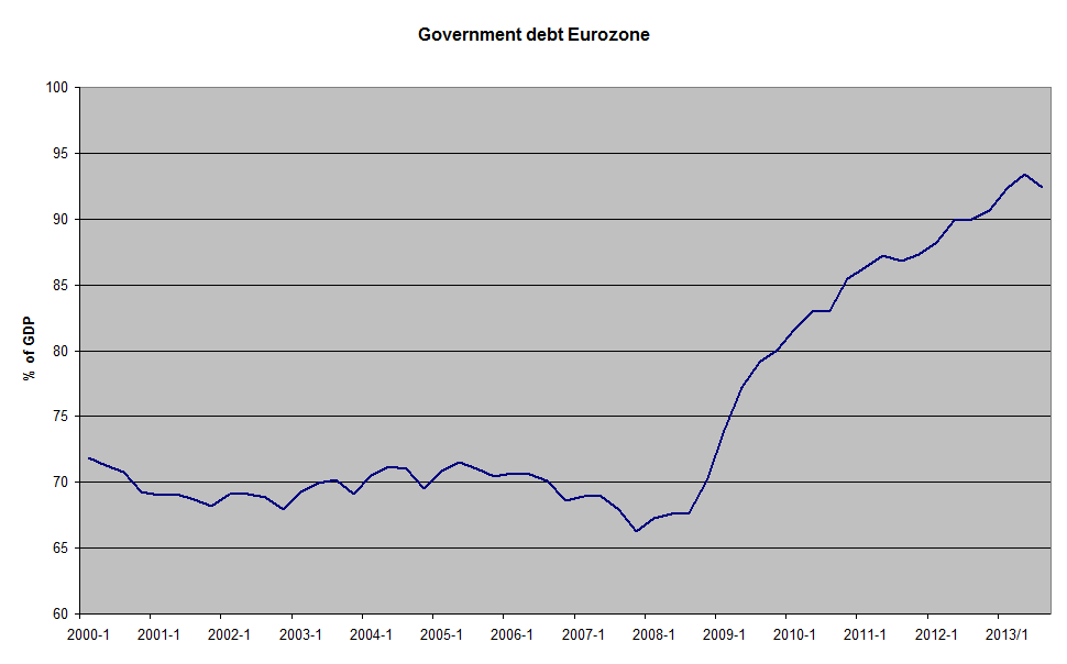 Development of government debt in the Eurozone, quarterly figures. Source: website ECB, query GST.Q.I6.N.B0X13.MAL.B1300.SA.Q.